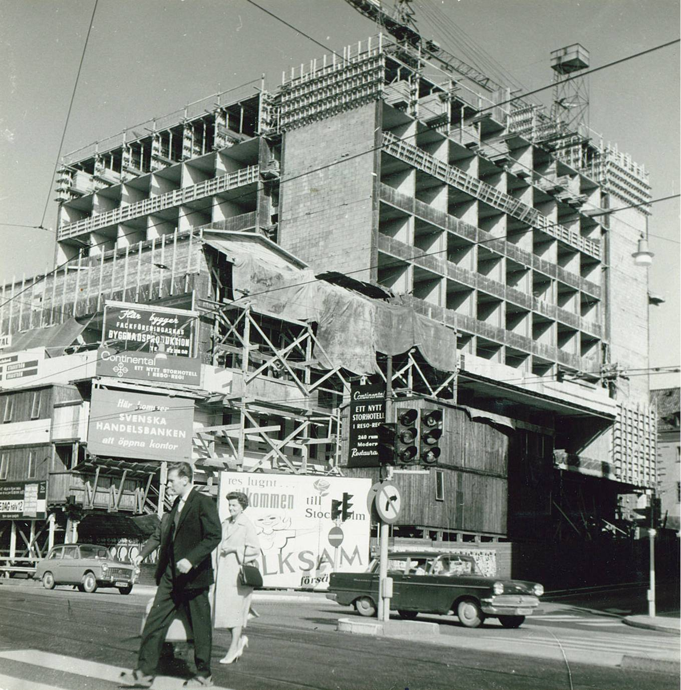 Hotel Continental in Stockholm during construction